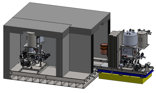 Design for the Majorana Demonstrator neutrinoless double beta decay experiment.